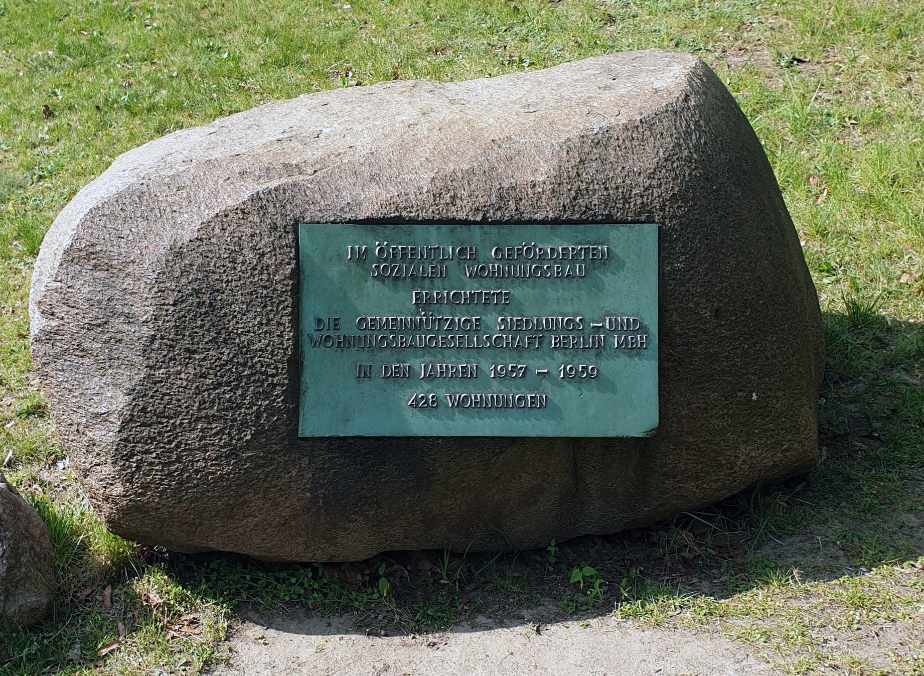 Memorial stone, Sozialer Wohnungsbau, Am Gemeindepark 24, Berlin-Lankwitz, Germany